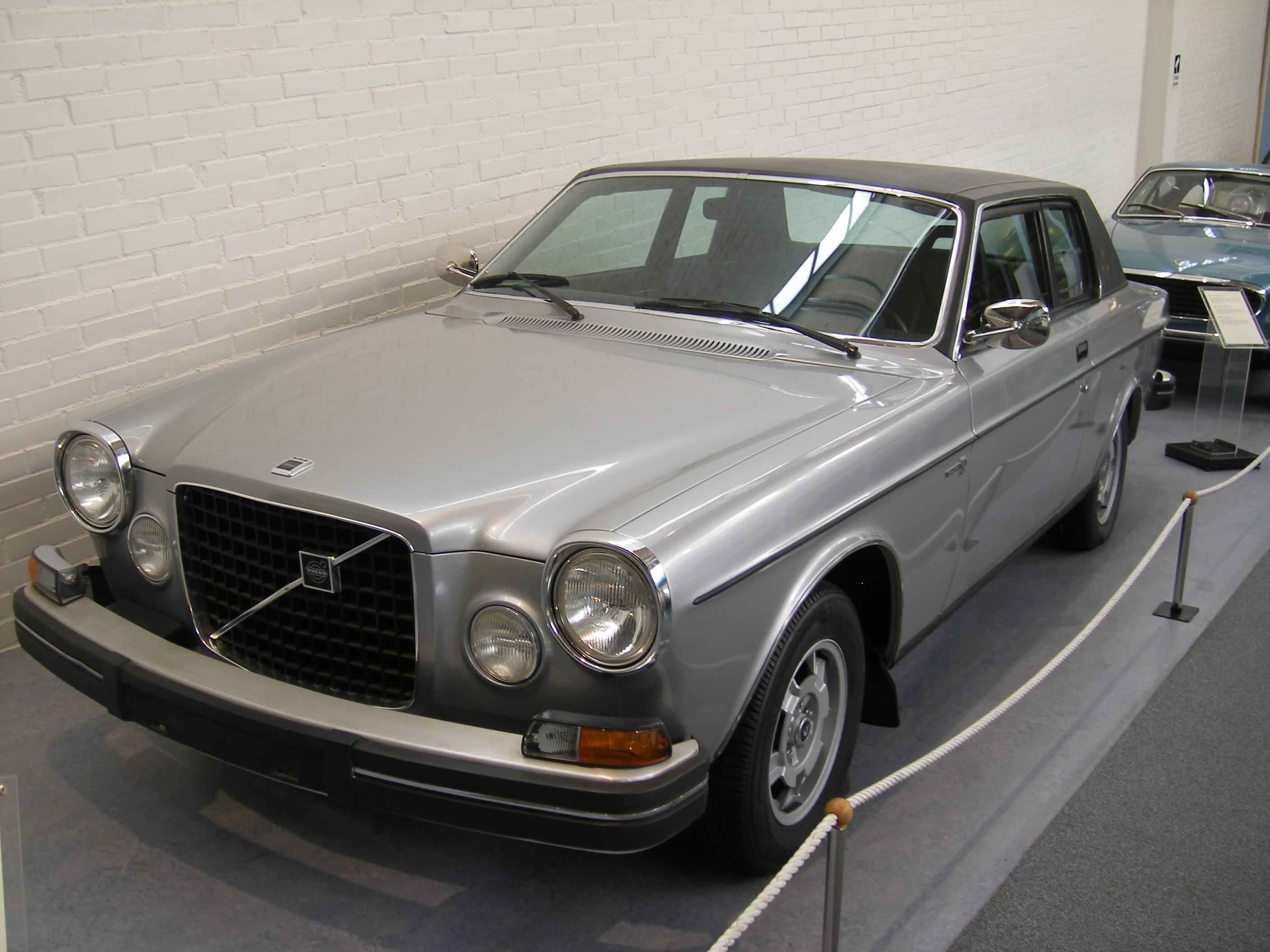 the 1st test for a coupe, utilising a 164 front end. On display at the Volvo museum in Gothenburg